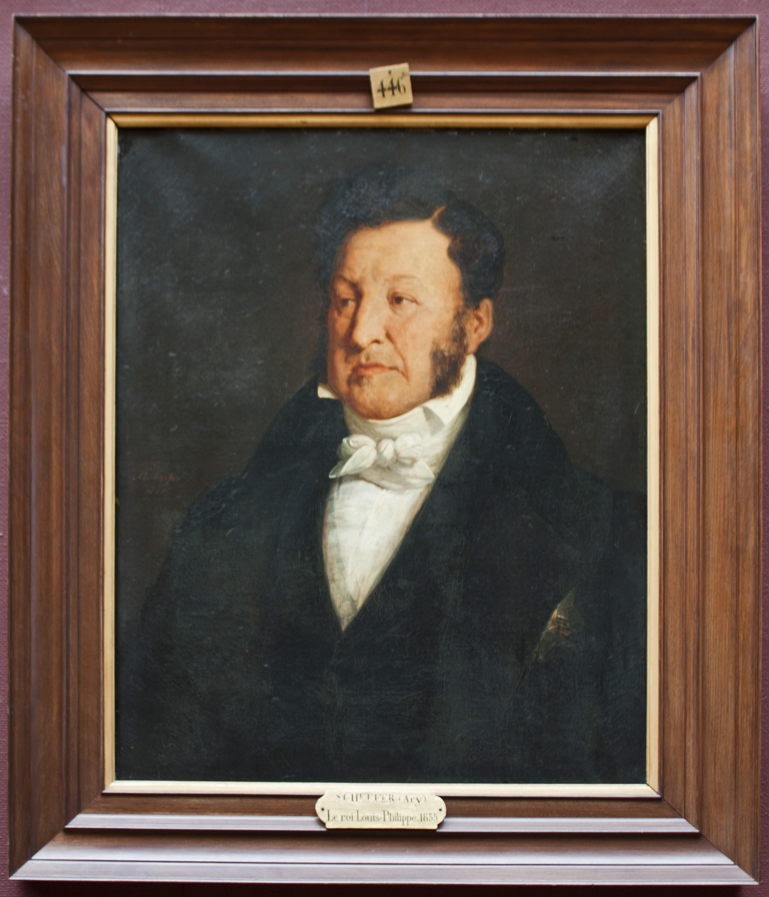 Portrait of the king Louis-Philippe by Ary Scheffer.